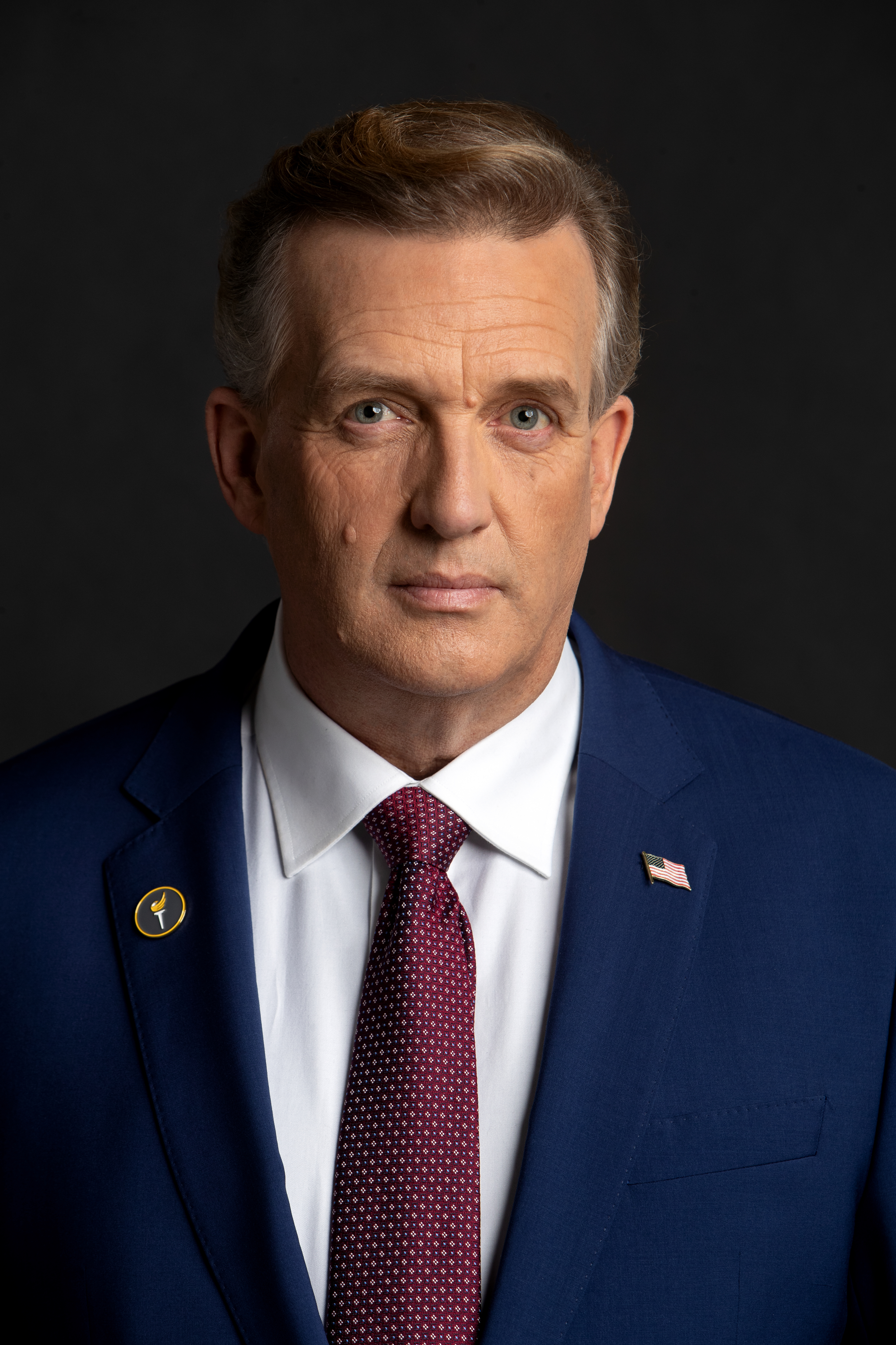 Mark Whitney is President of Corporation and a 2020 Libertarian Candidate For President of the United States.